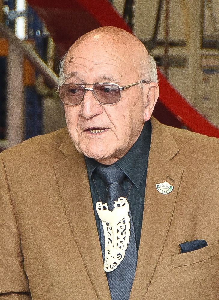 Visit of Patsy Reddy at Shotover Jet: Tā Tipene O'Regan speaks